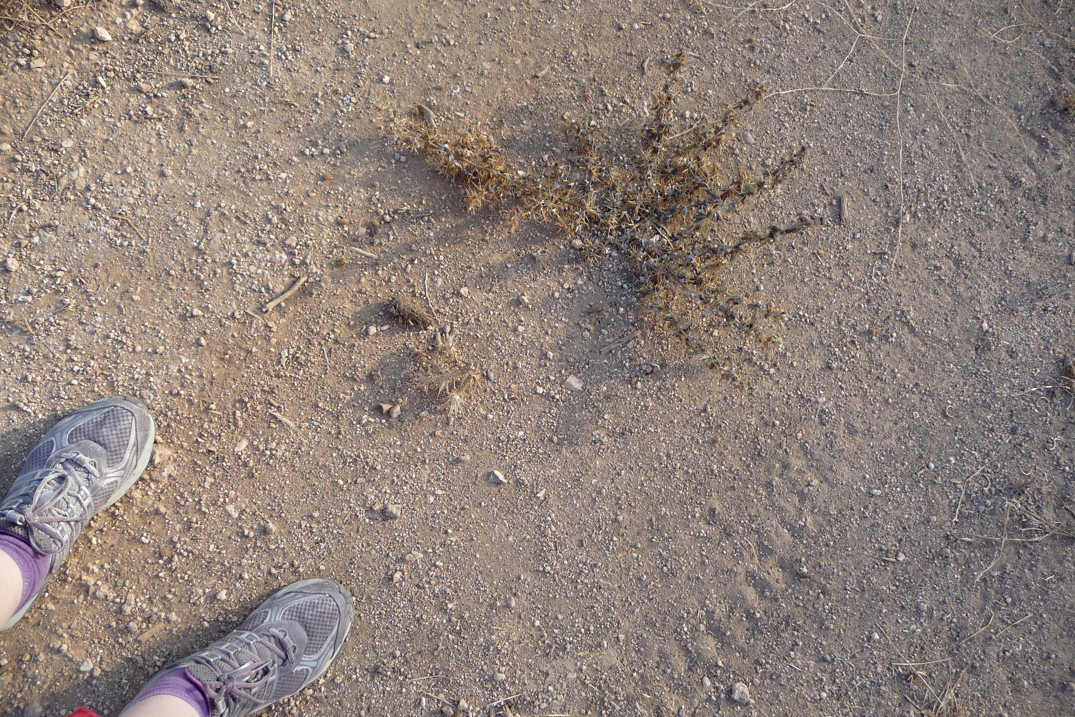 Mount Carmel